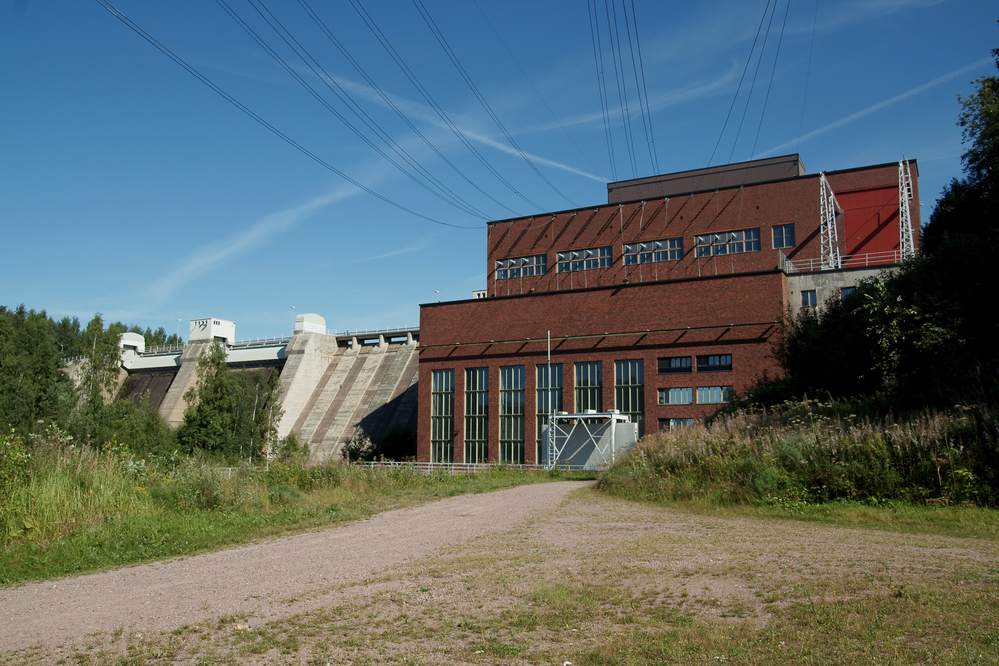 Hydroelectric plant of Harjavalta.